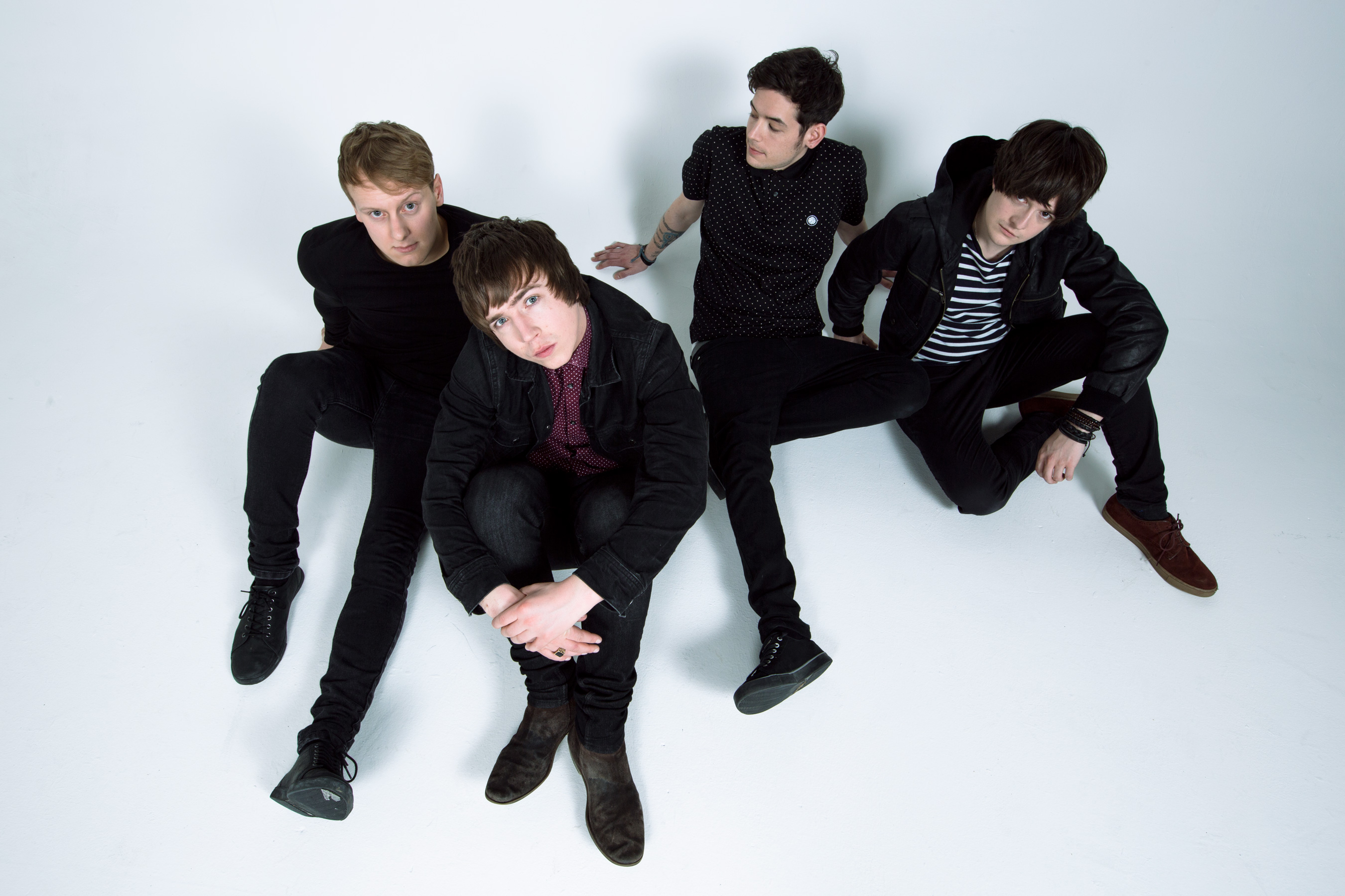 The Luka State, Photographed by Jono Terry at Sunbeam Studios, London on 20th March 2015 on behalf of Project Records